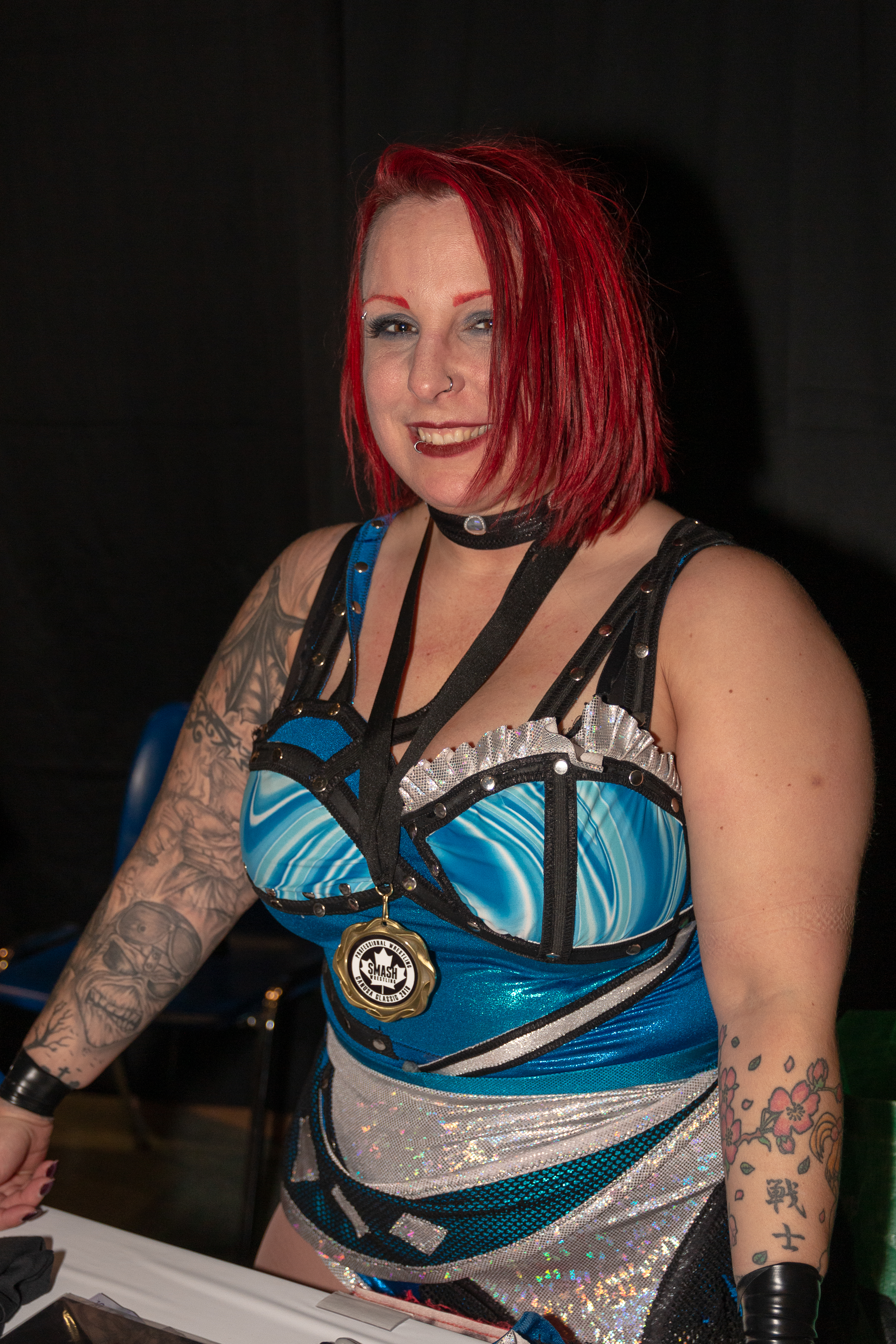 Pro wrestler Lufisto photographed post-event at Smash Wrestling's Canusa 2018 show in London, ON